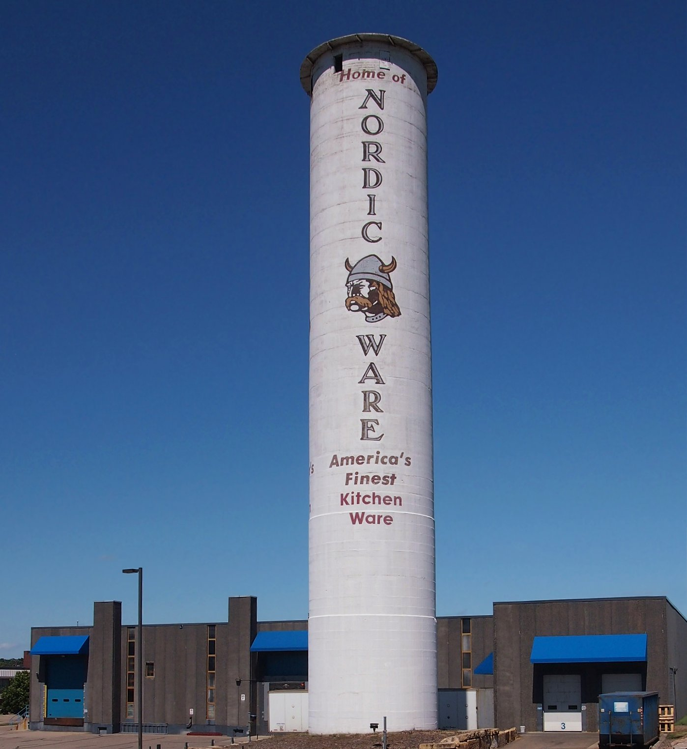 Peavey–Haglin Experimental Concrete Grain Elevator, 5005 County Rd 25, St Louis Park, Minnesota, USA. Viewed from the southwest.